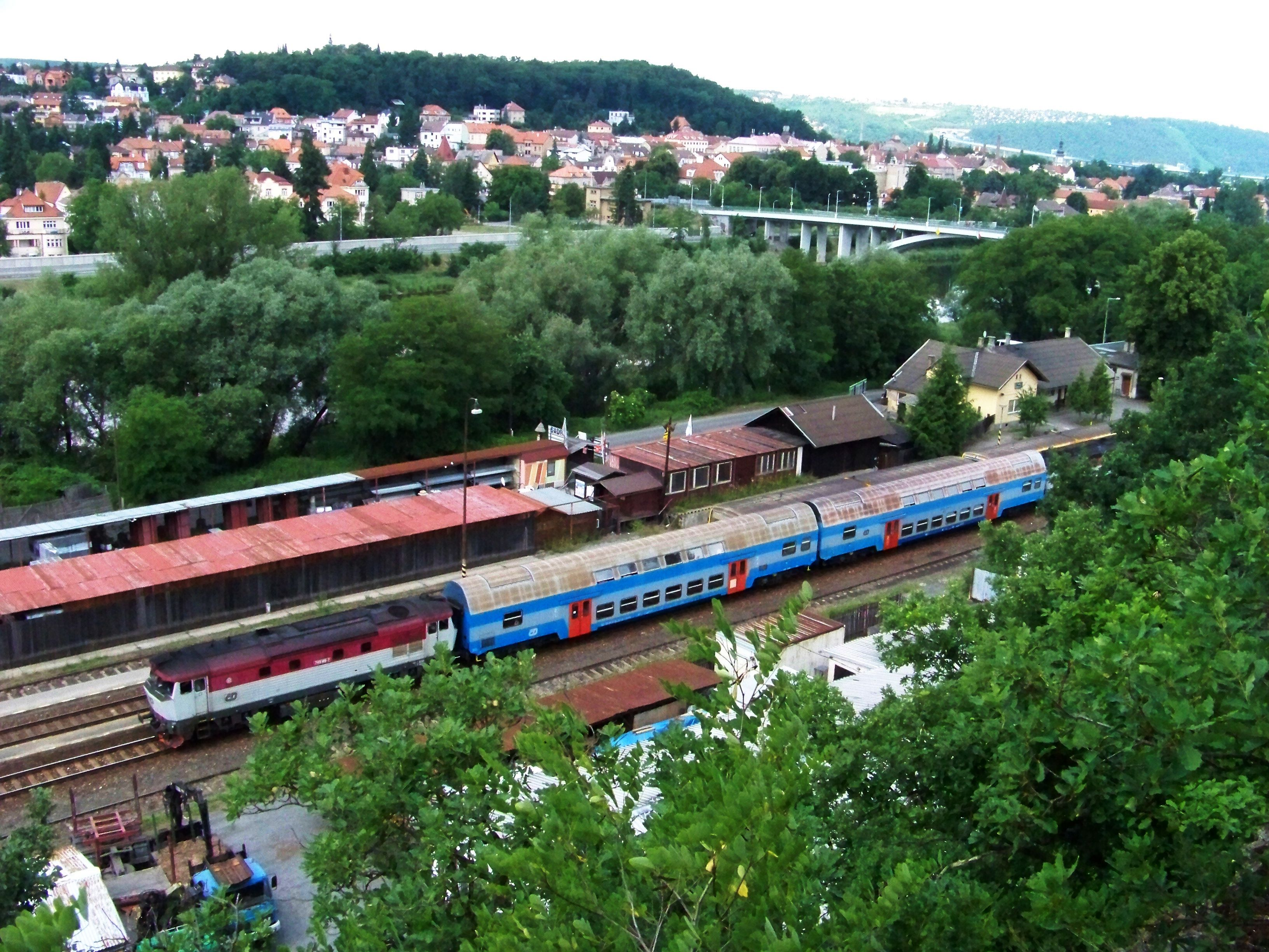 Prague-Zbraslav-Závist, the Czech Republic. Praha-Zbraslav train station.